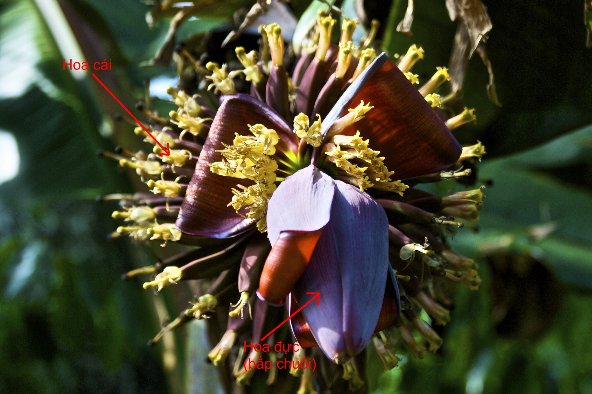 Banana FlowerTiếng Việt: Hoa chuối